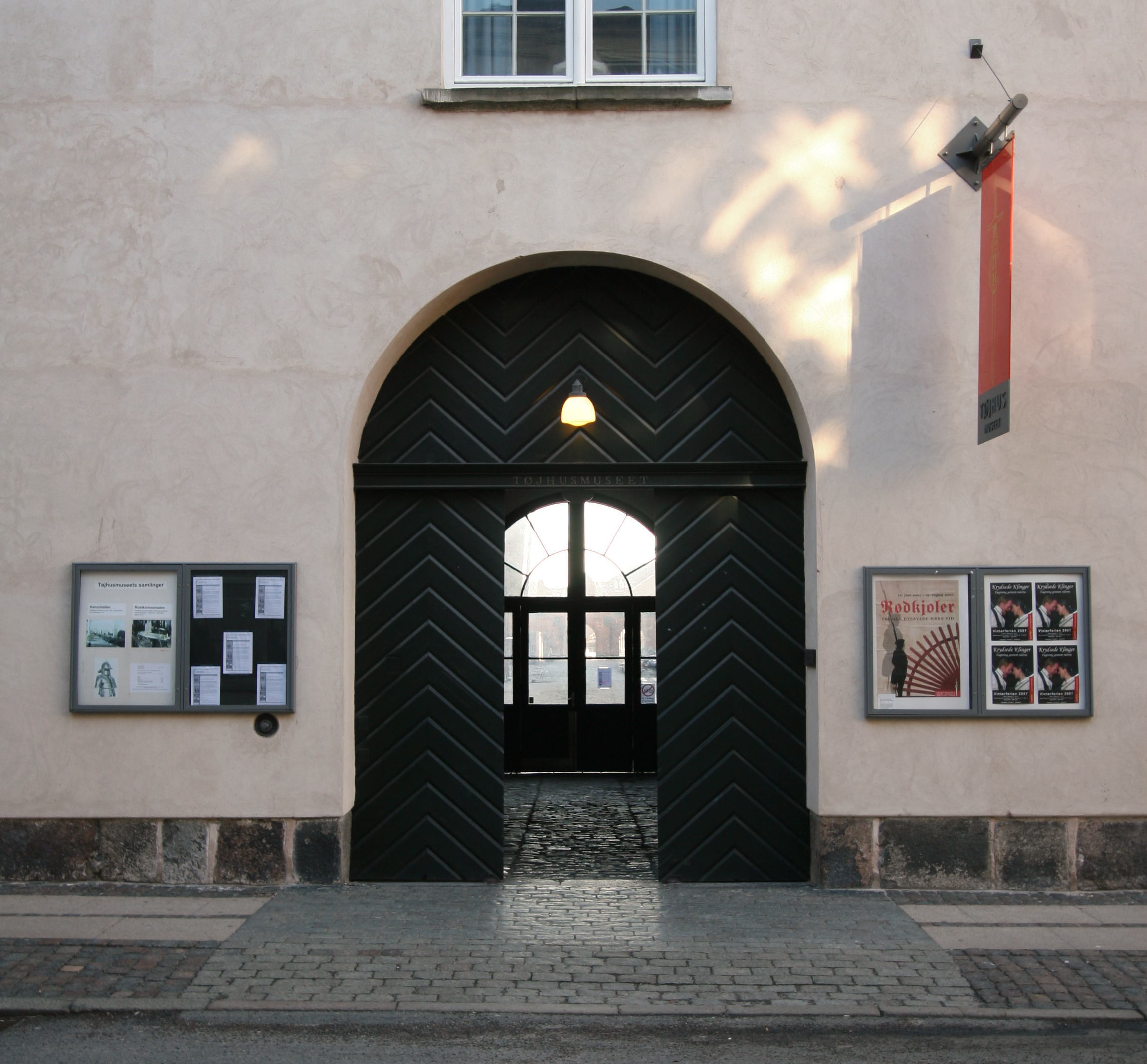 Tøjhusmuseet, The Royal Danish Arsenal Museum in Copenhagen. Entrance. Indgang.